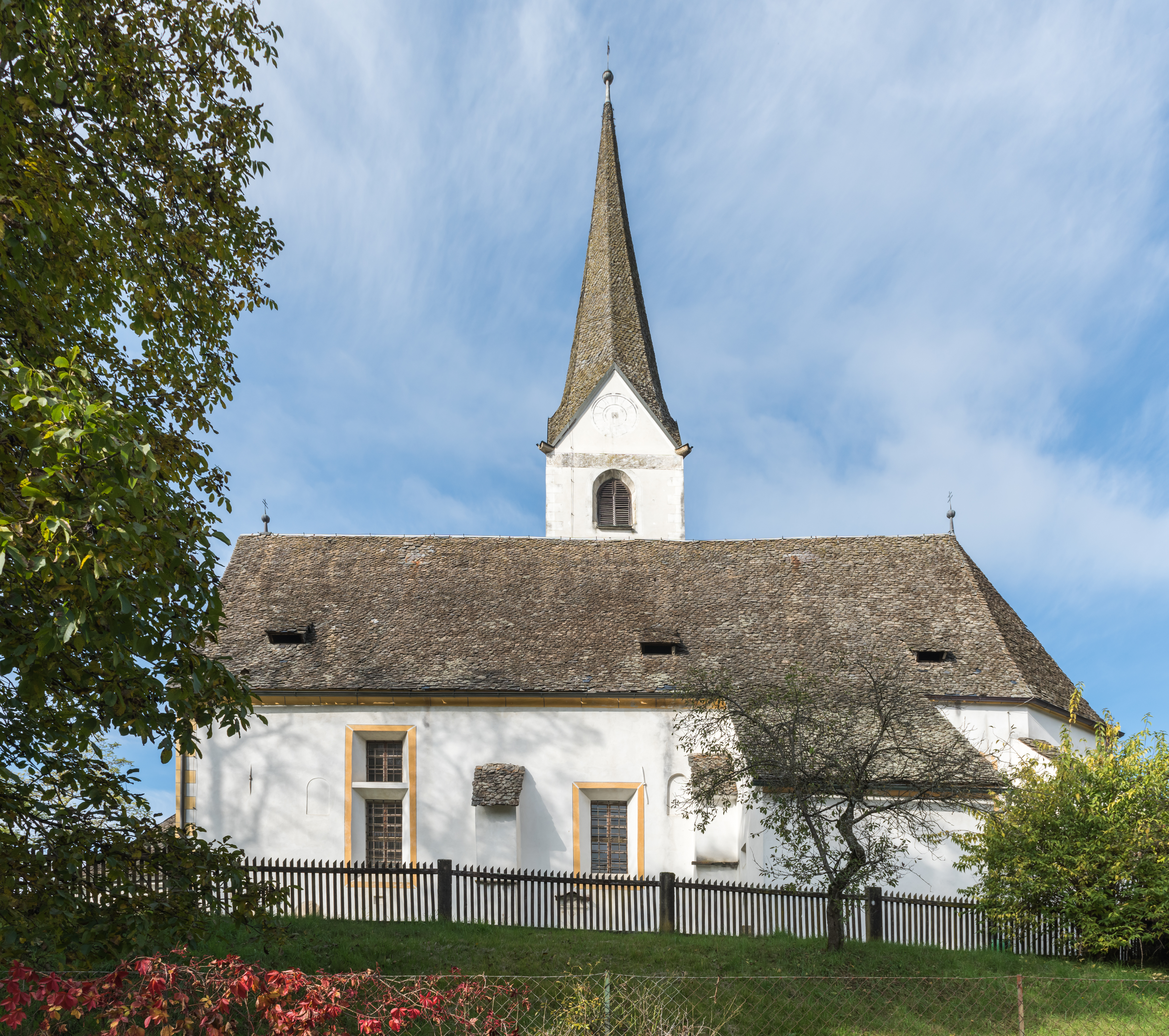 Parish church Saint Donatus in Sankt Donat, municipality Sankt Veit an der Glan, district Sankt Veit an der Glan, Carinthia, Austria, EU